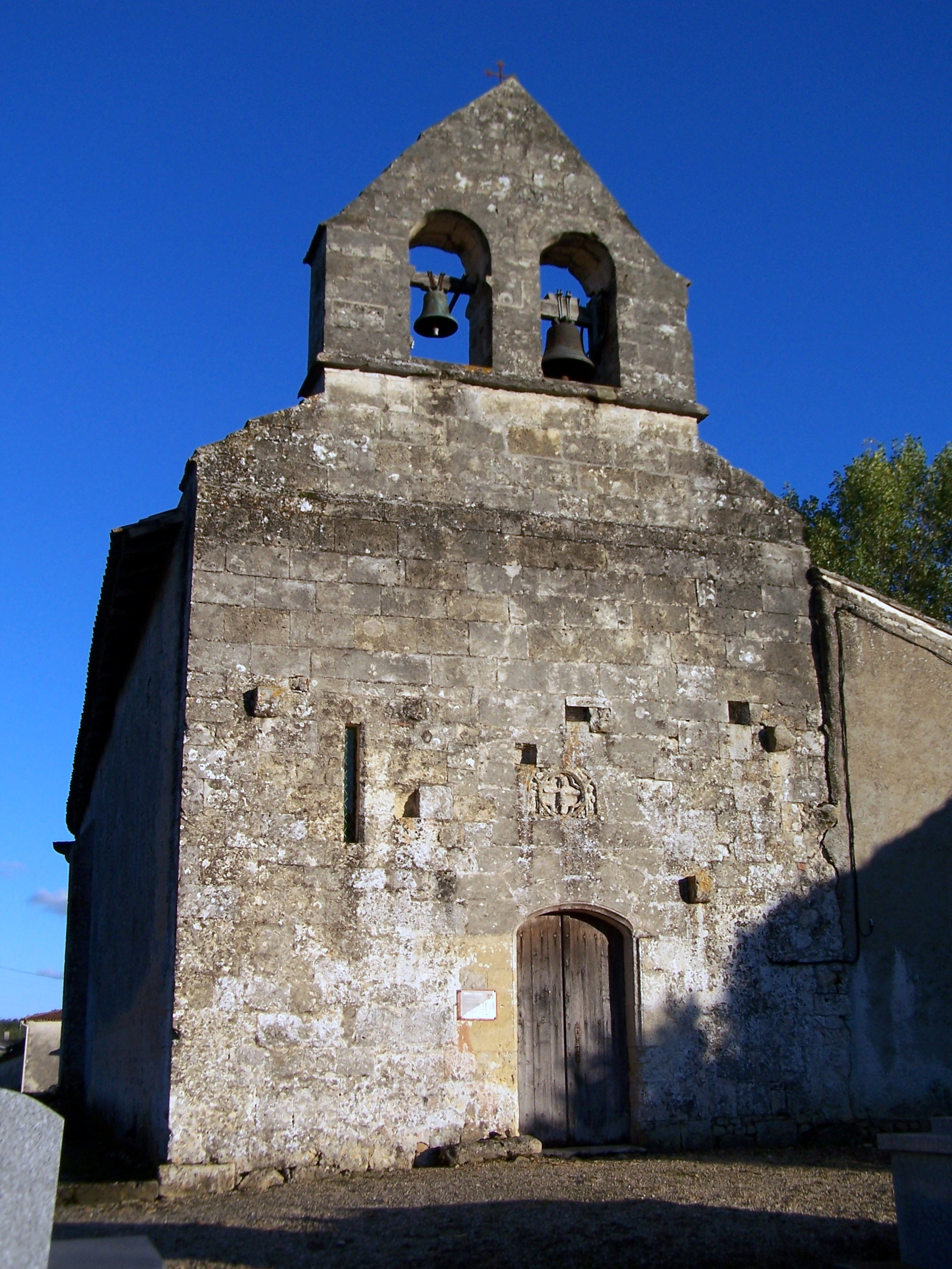 Saint James church of Bellebat (Gironde, France)